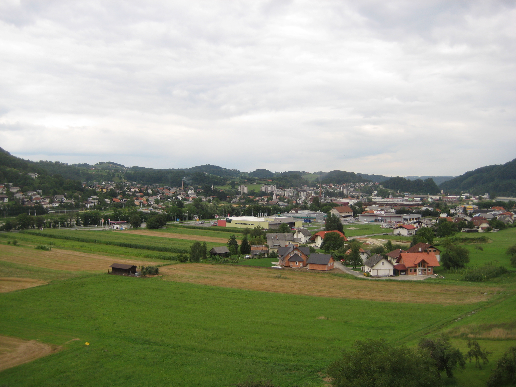 Sevnica, town in Slovenia